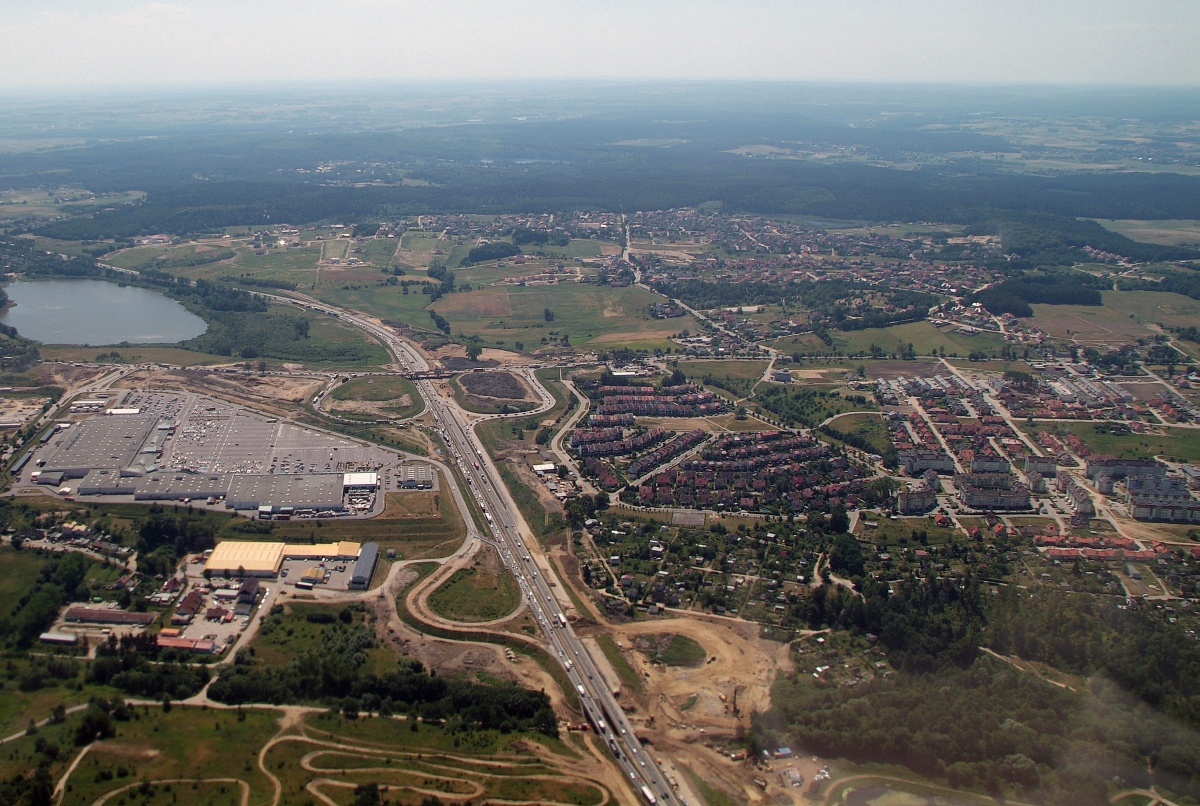 Freeway "S6" in Gdańsk Karczemki